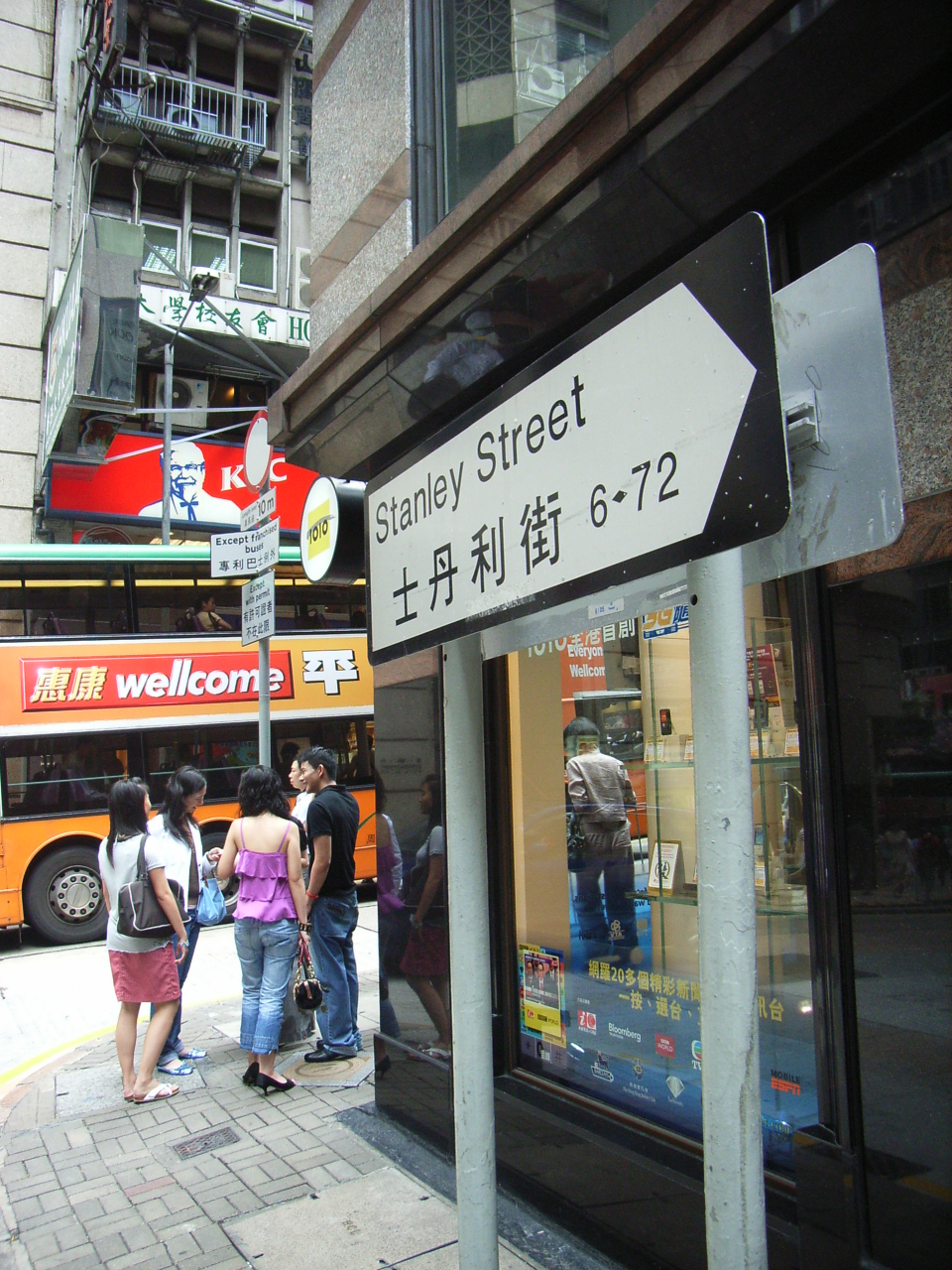 Stanley Street (史丹利街), Central, Hong Kong by TangHon